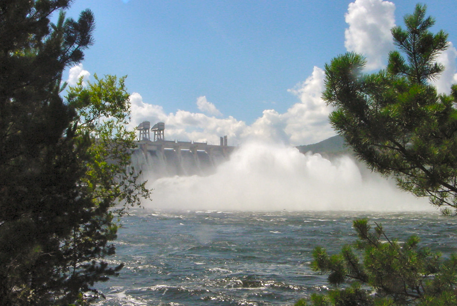 The Krasnoyarsk Dam on 29 July 2006.